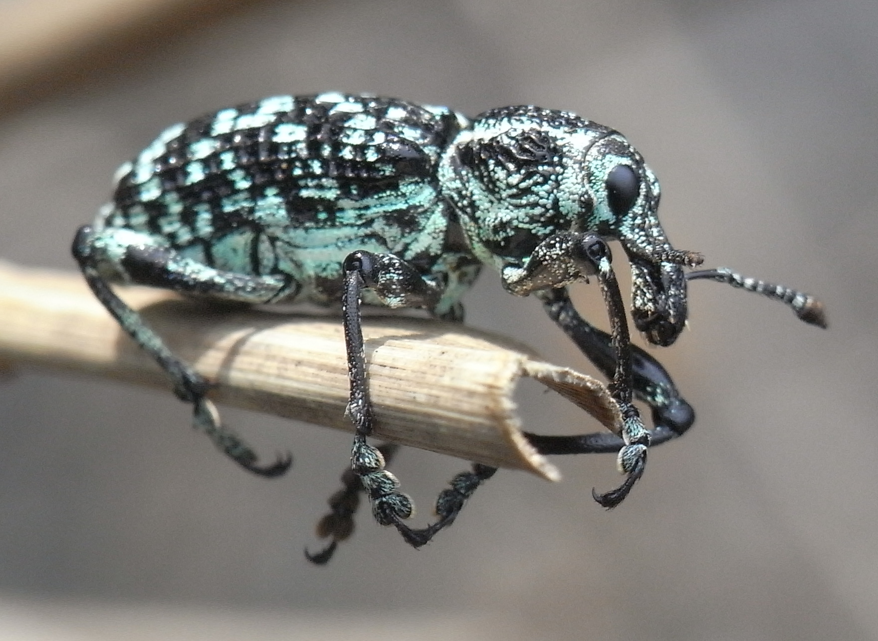 Diamond Weevil (Chrysolopus spectabilis) found at Booti Hill Walking Track, Booti Booti National Park, New South Wales, Australia.